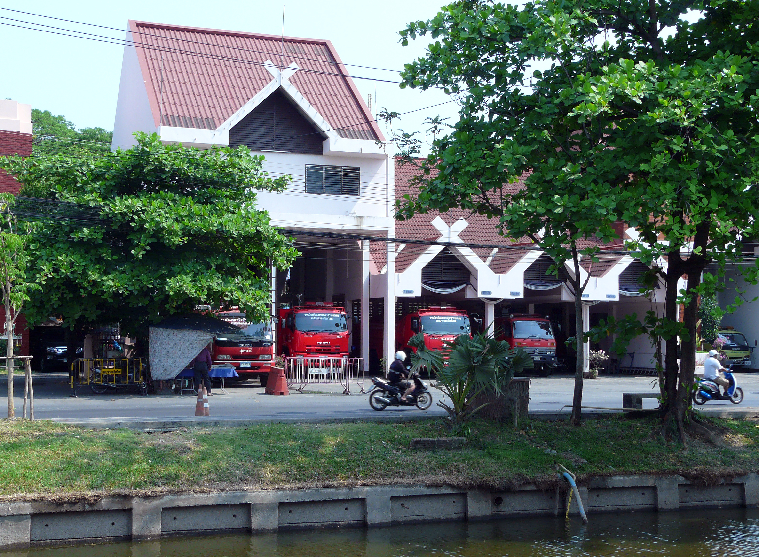 Fire station of Chiang Mai Fire Department, Bumrung Buri Road directly at the city moat